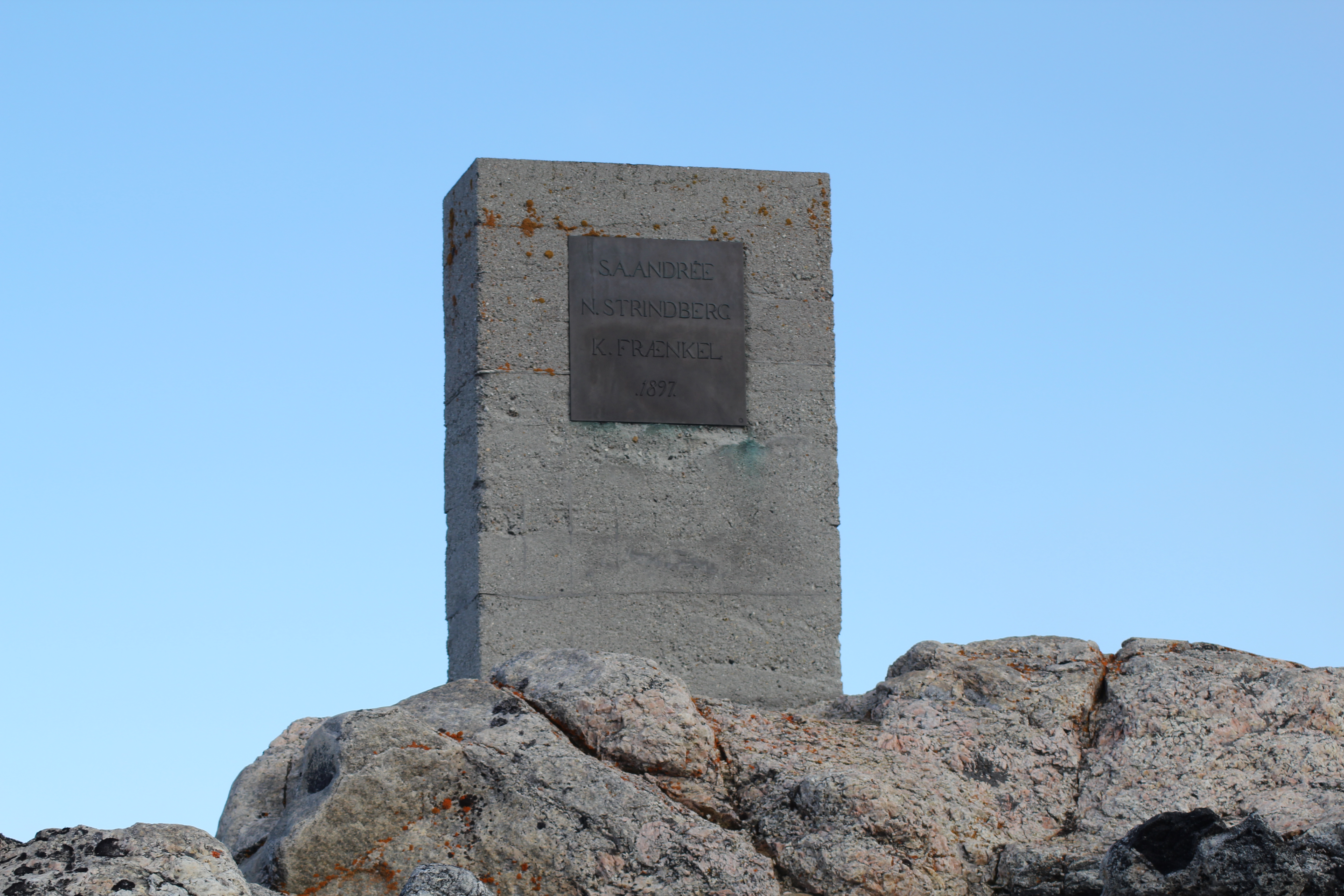 This is the monument to the Andree/Strindberg/Fraenkel expedition, on Kvitoya in the Norwegian Arctic. I photographed this on 17 Aug 2011, as part of an expedition (with Silversea), we were, apparently quite fortunate to be able to get there, as it is usually inaccessible. [I have other photos of the monument and the environment surrounding it, available on request.]